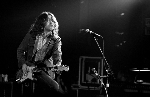 Rory Gallagher, in a classic rock pose, at B'Ginnings Concert Club Nov. 1974